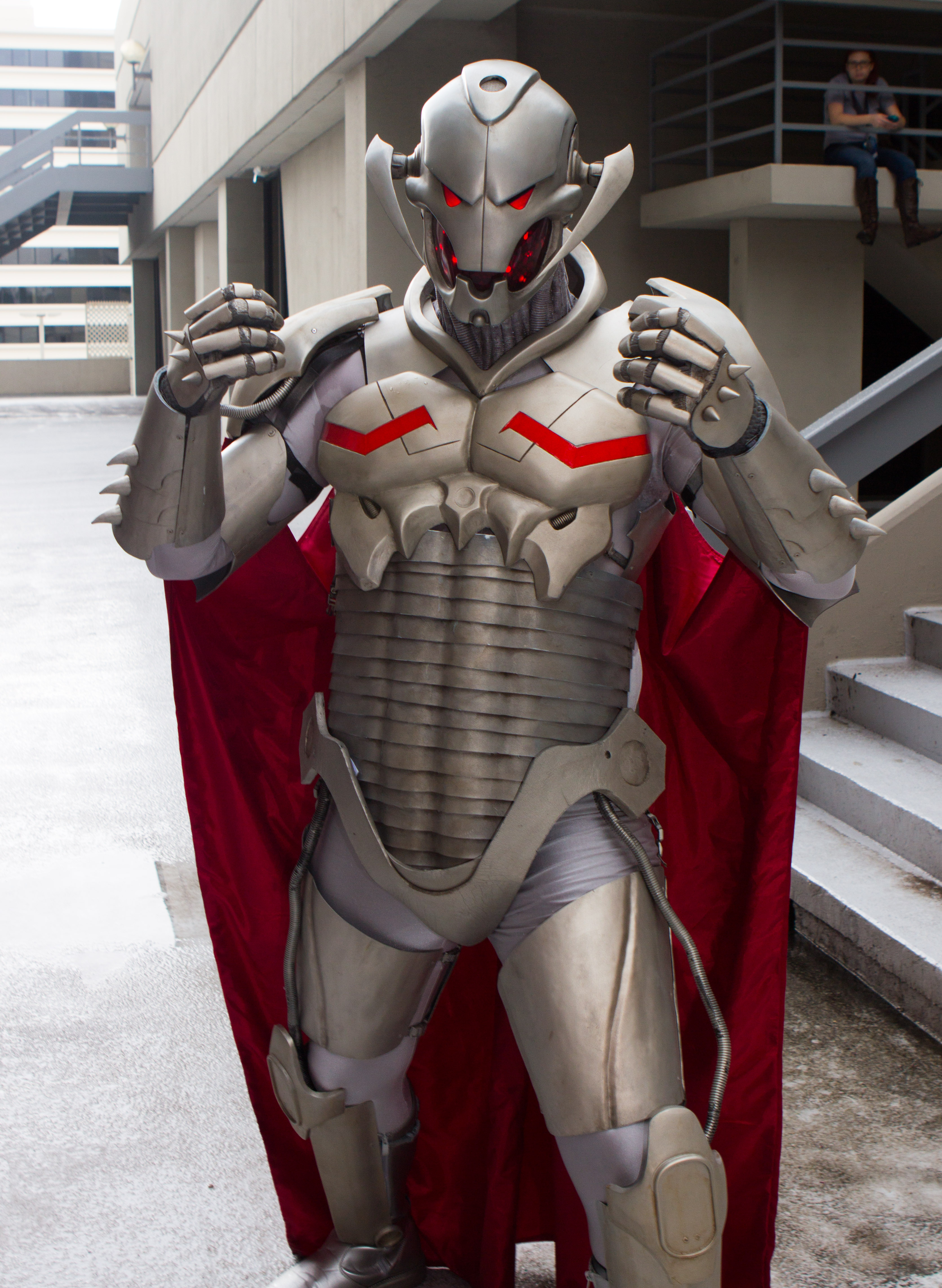 Cosplay of the Marvel Comics character Ultron. Dragon Con 2013